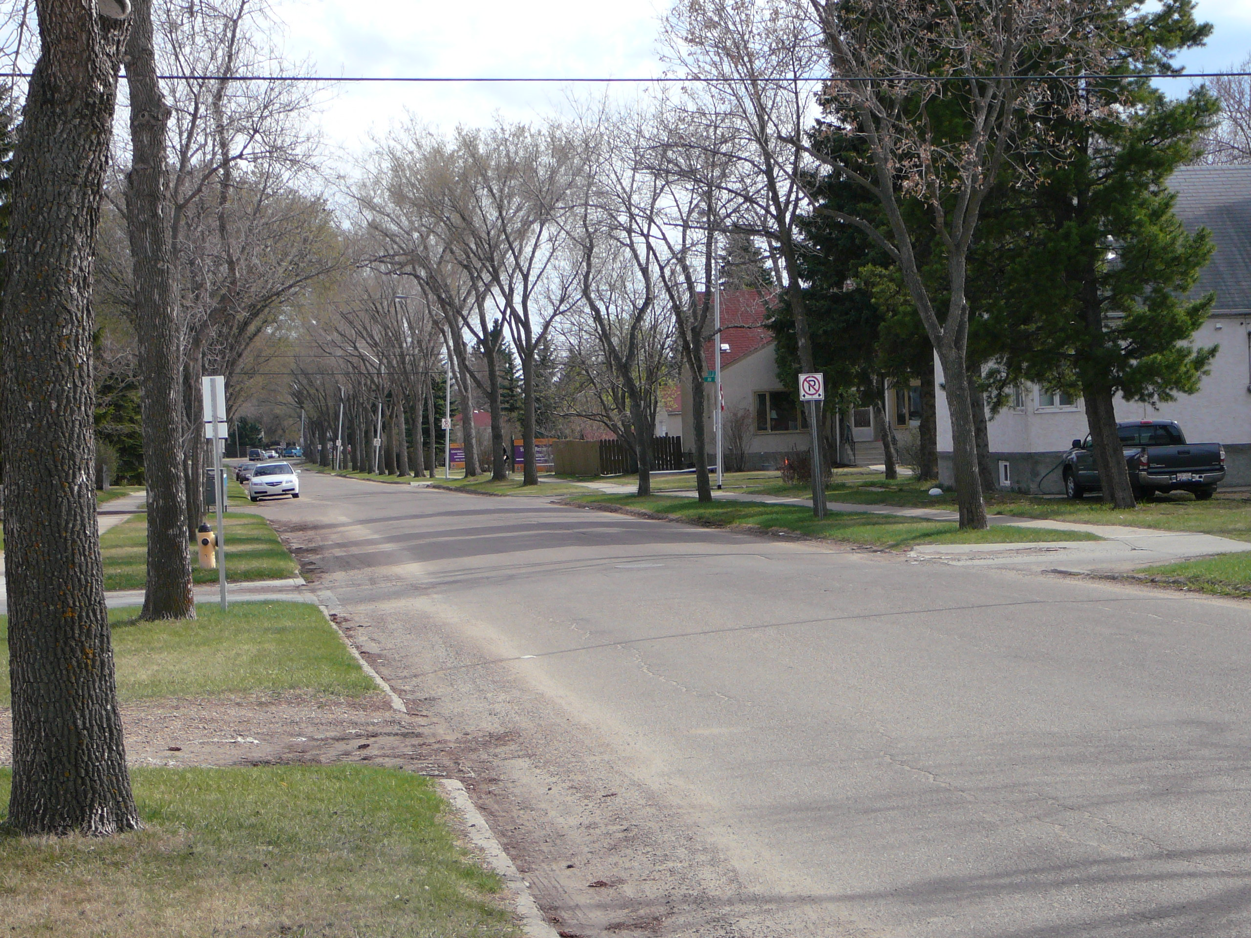 Residential side street in Edmonton neighbourhood of McKernan